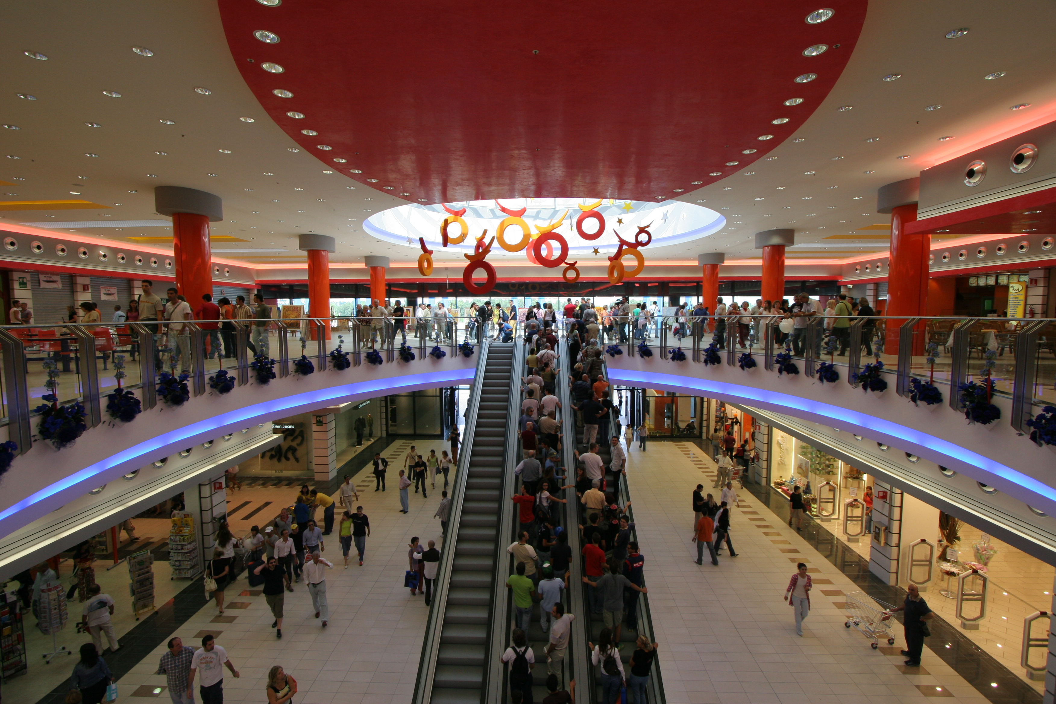 SC Megalò